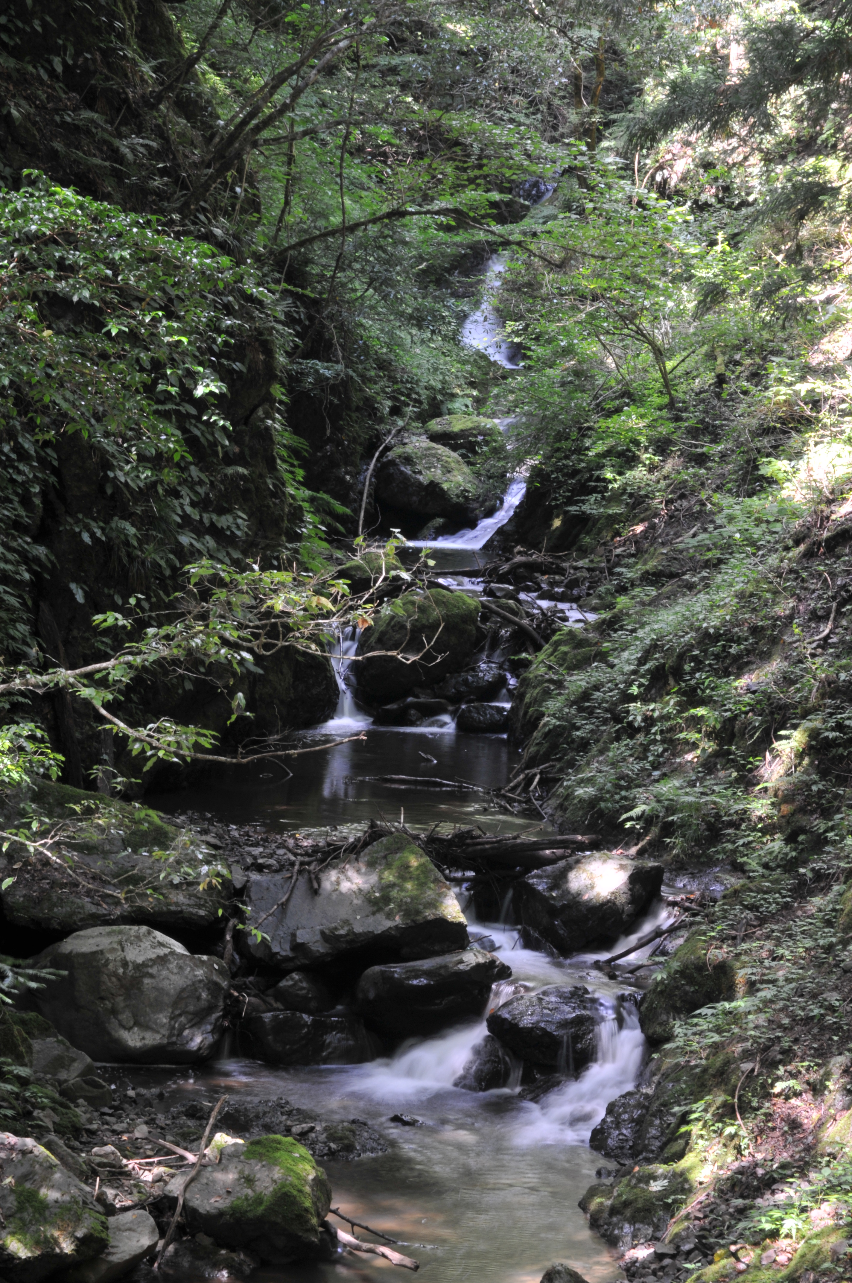 Iwama-no-taki waterfall